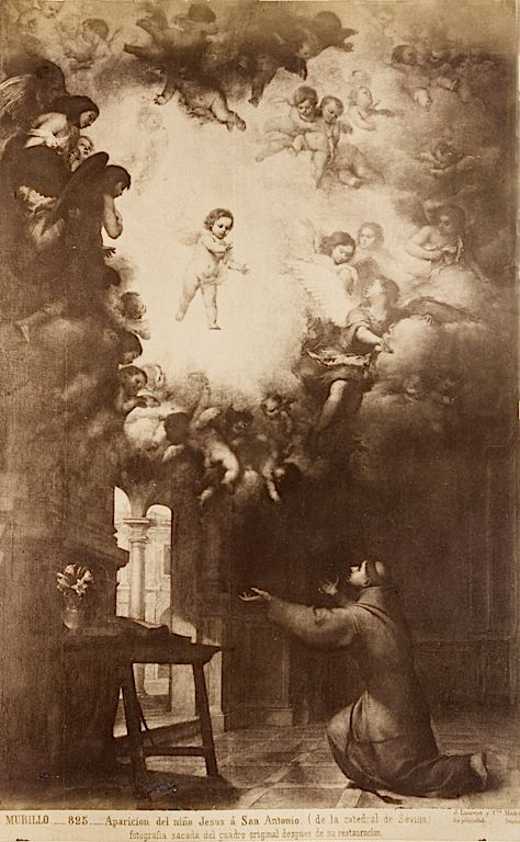 Juan Laurent, noted French photographer, established a studio in Madrid in 1856. He is recognized for his architectural and landscape scenes of Spain and Portugal as well as his extensive documentation of the collections of the Prado Museum and the Royal Armory in Madrid. By the 1860s he was the proprietor of Laurent y Cia, the largest photographic publishing house in Spain. Laurent's prints and albums were marketed to a wealthy clientele through his gallery in Paris and distributed in England by Marion & Co. of London. (Hannavy, Encyclopedia of Nineteenth-Century Photography, vol. 2, pp. 829-830). The Ruiz Vernacci photo archive owns a glass plate negative (VN-20166) that reproduces an early J. Laurent y Cia. photographic print of this Murillo painting. It shows the effect of an 1874 attack on the painting, when just the figure of Saint Anthony was cut out and stolen. The image in the negative shows the piece of paper with Saint Anthony cut from and moved to the side of a full view of the painting. This diagram-like lay out may have been used to illustrate a magazine article explaining the robbery. The following year, the Spanish embassy in the United States managed to buy back the stolen piece from an antique dealer in New York and return it to Seville, where it was reunited with the rest of the canvas in 1875 by the most renowned art conservator of his time, Salvador Martínez Cubells. Martínez, a long-time conservator of the Museo del Prado, was famous for transferring Goya's frescoes known as the Black Paintings from the walls of Goya's home to canvas in 1874. The subtext in the labels of two of the Image Collections' photographs indicates that they were shot from the original painting after Martínez's restoration. The print mounted in A223, vol. 1, pl. 72, has a different caption, and may have been shot before the robbery and the subsequent restoration; it also has substantial fading at the edges.